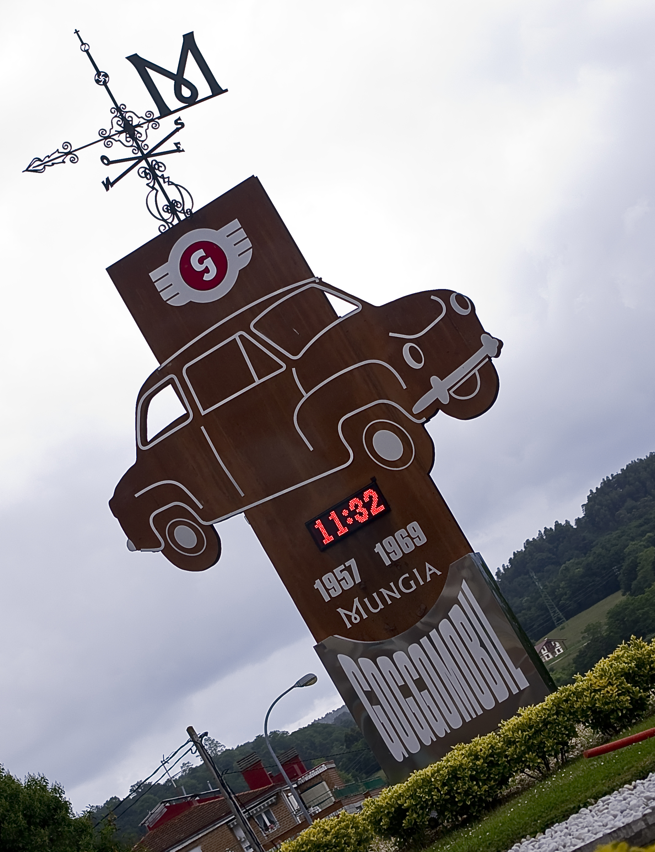 The Goggomobil was built in this small town of the Basque Country, Mungia and so they commemorate that era with this monument in one of the entrances of the town.